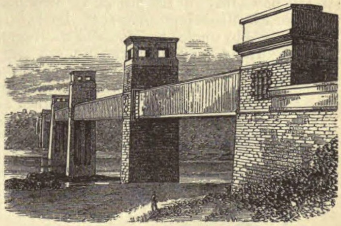 Woodcut/drawing of Stephenson's Britannia Bridge.